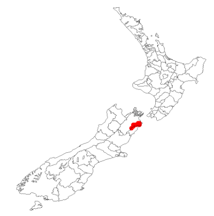 Carmichaelia astonii occurrence data from Australasian Virtual Herbarium downloaded 2 December 2019 using